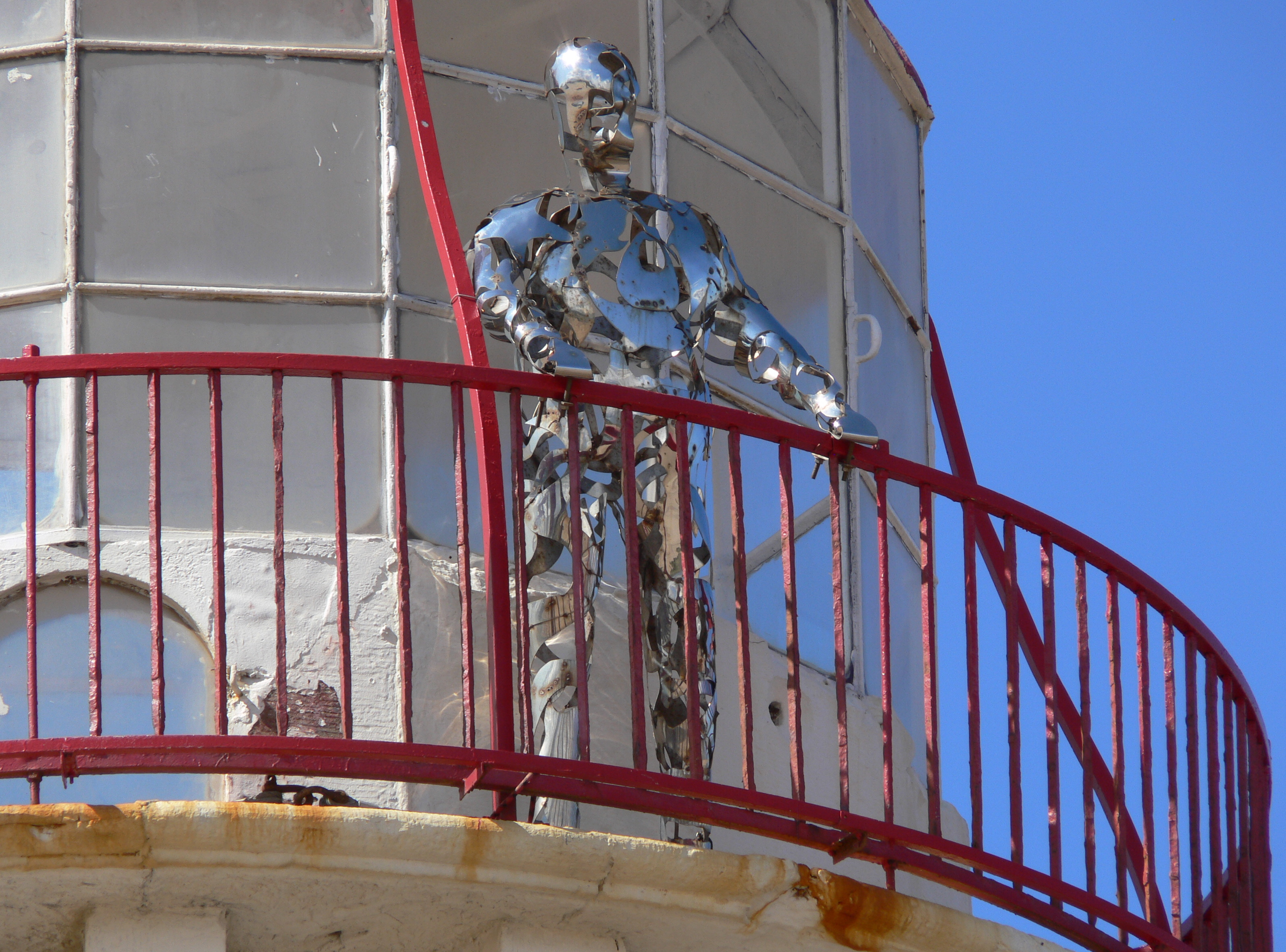 'The Keeper' at the Point of Ayr Lighthouse. The 'The Keeper' is a 7ft stainless steel sculpture by artist Angela Smith. It is said to represent all the ghost sightings at the lighthouse. One of which is of the keeper, who stands on the upper walkway.